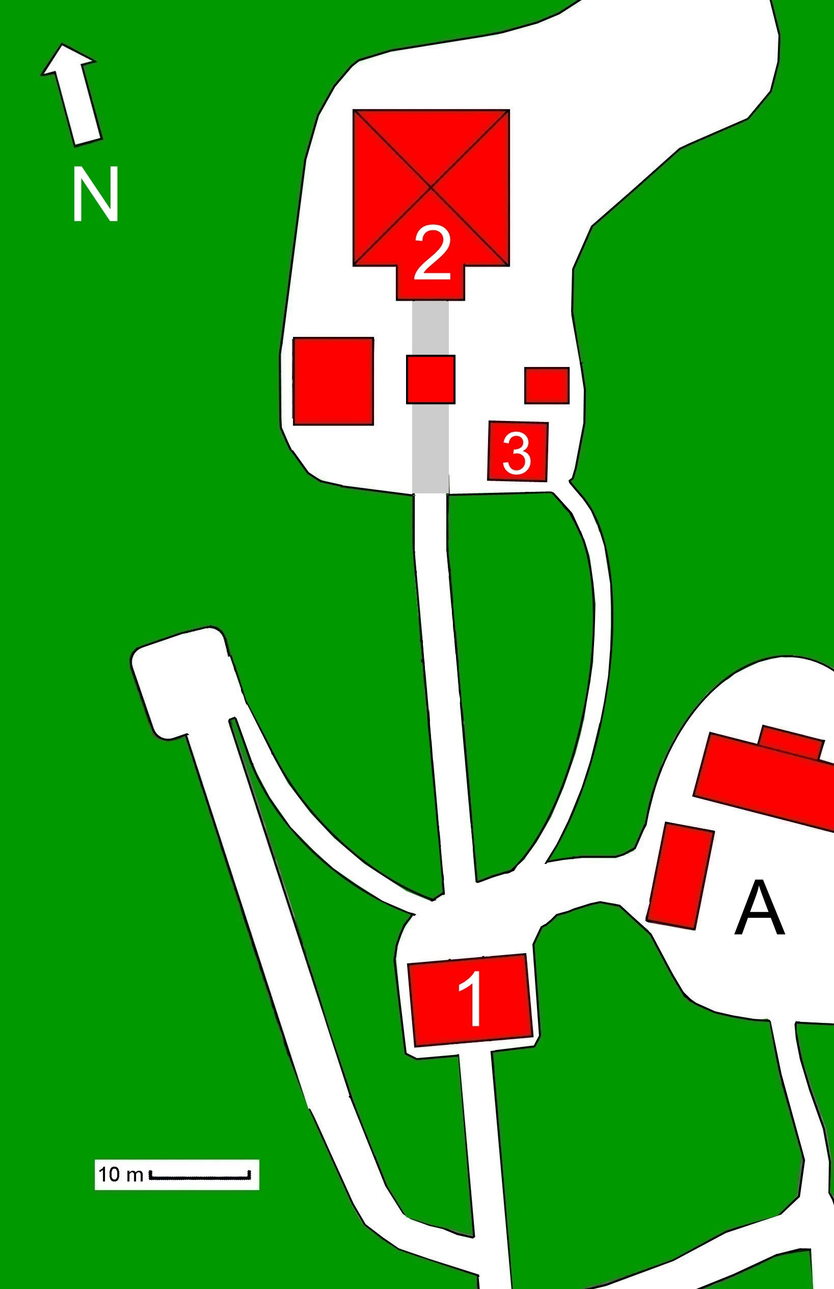 Layout of temple Kiyotaki-ji at Tsuchiura, Ibaraki prefecture, Japan